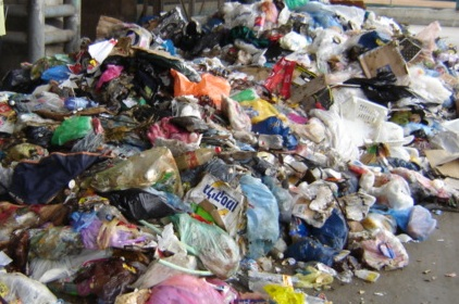 Mixed municipal waste at Hiriya transfer station, Israel